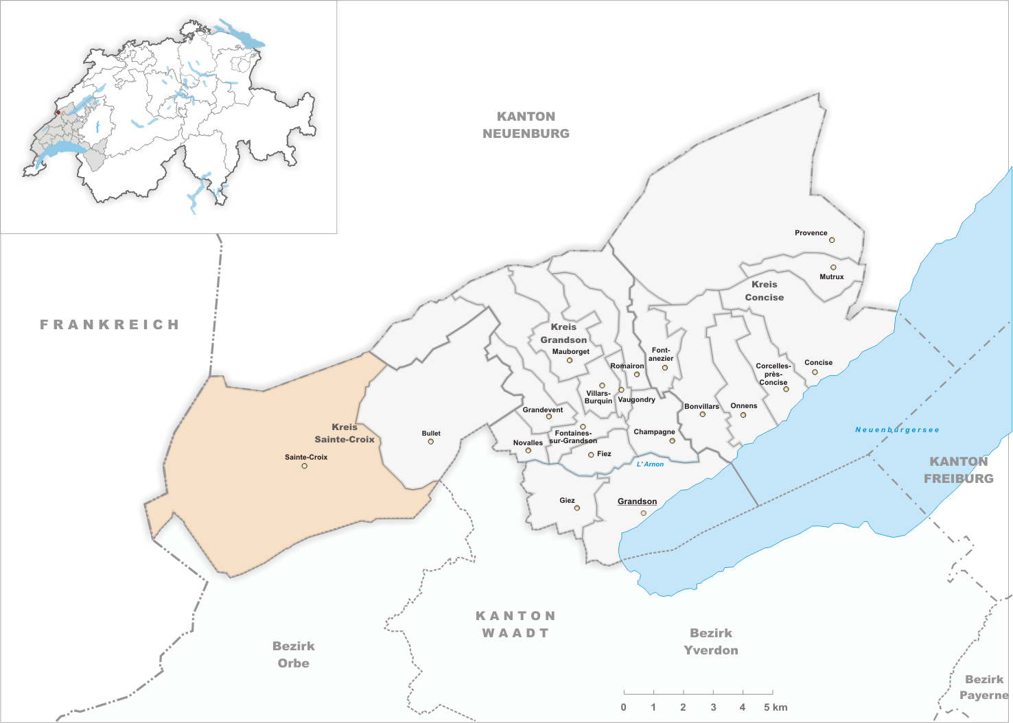 Municipality Sainte-Croix